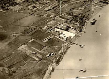 Aerial view of Longhua (Longhwa) Airport in 1920s. 中文（中国大陆）: 1920年代的上海龙华机场鸟瞰